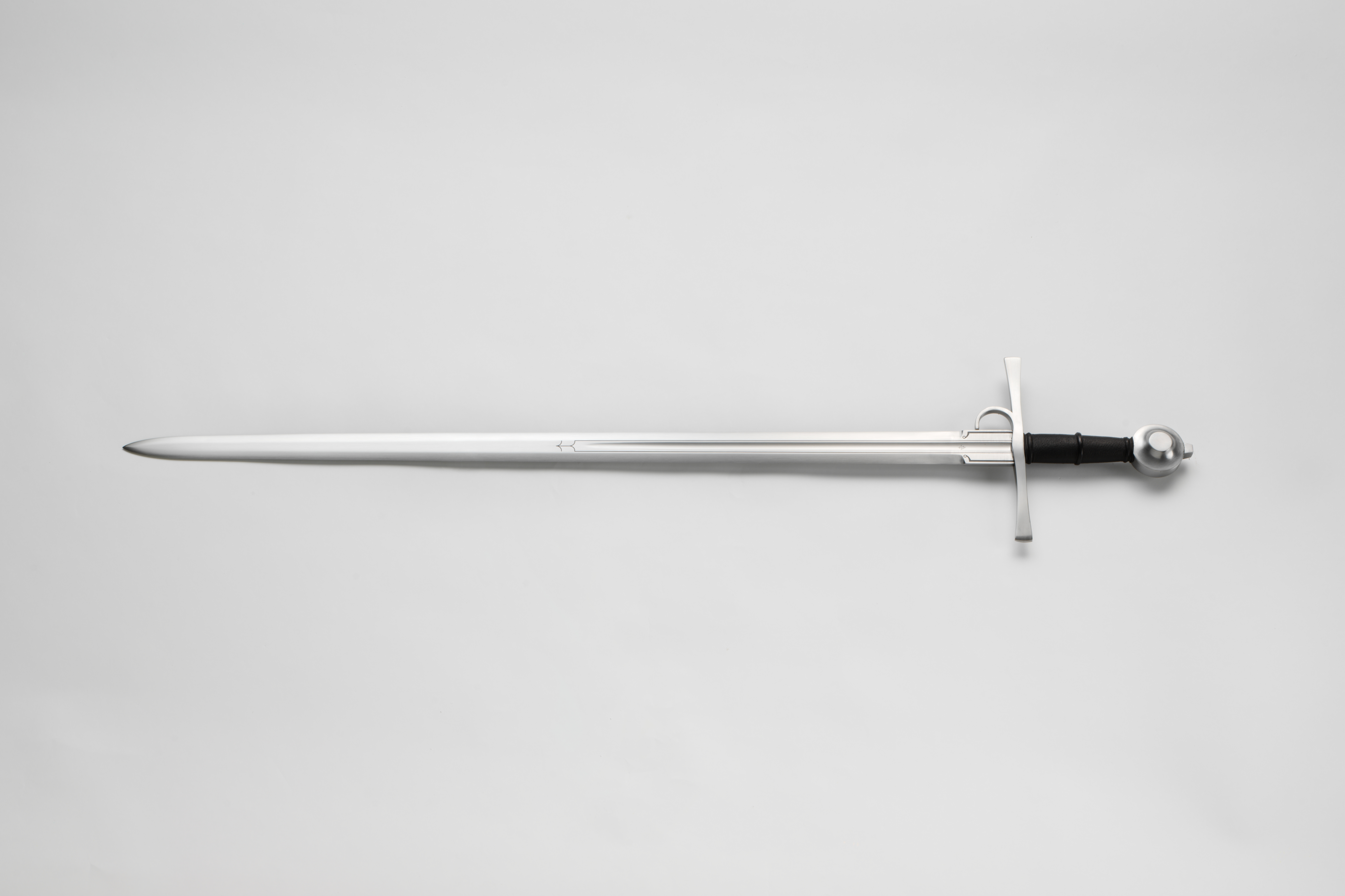 The Condottiere Limited Edition Medieval Italian Sword